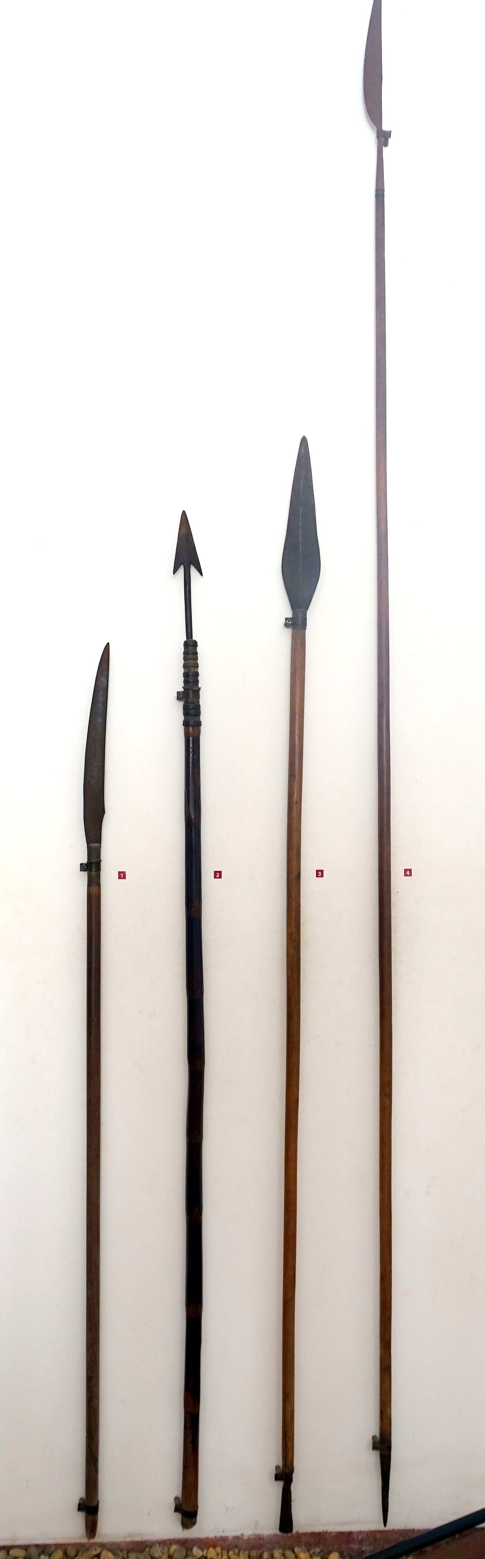 Exhibit in the Vietnam Museum of Ethnology - Hanoi, Vietnam.